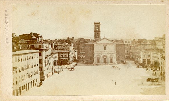 Alphonse Bernoud (1820-1889) - The Cathderal of Livorno.